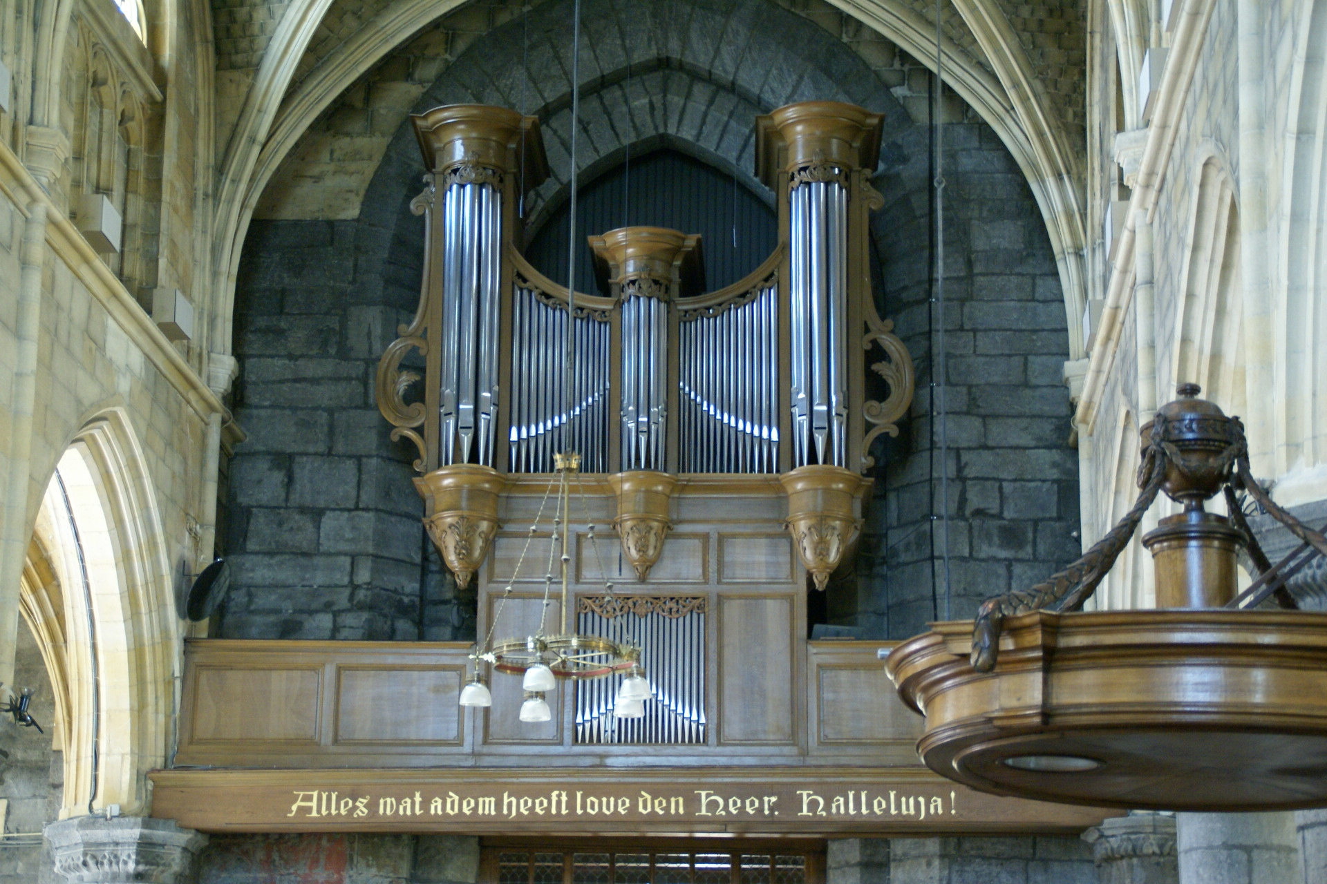 Pipe organ in St. Janskerk in Maastricht, Netherlands